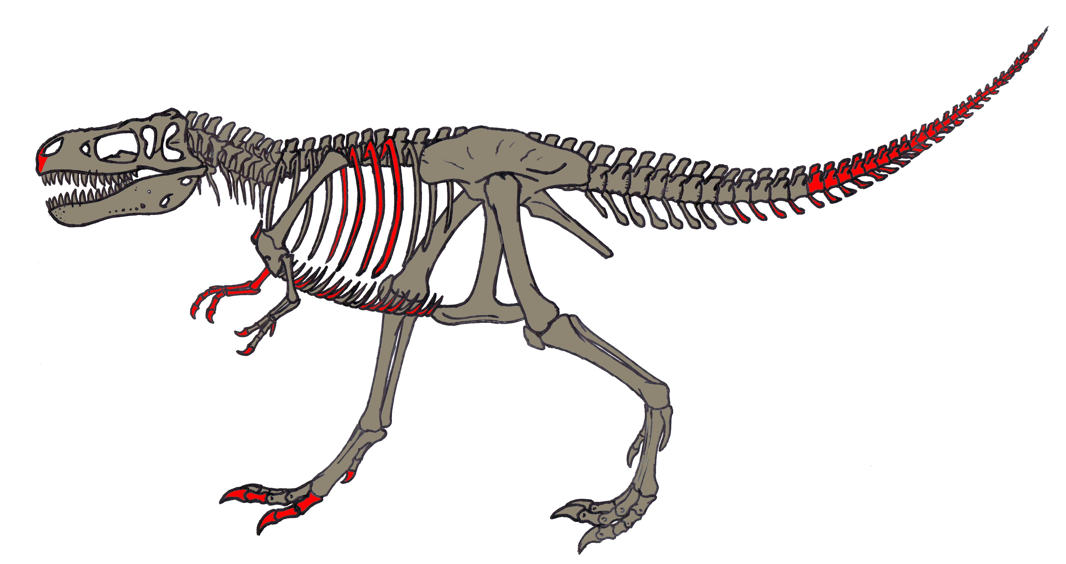 Illustration showing skeletal material known from the Tyrannosaurus rex specimen MOR 555, or popular called "Wankel rex" after it's discoverer Kathy Wankel, who discovered it in Hell Creek Formation 1988. Missing bones coloured in red.